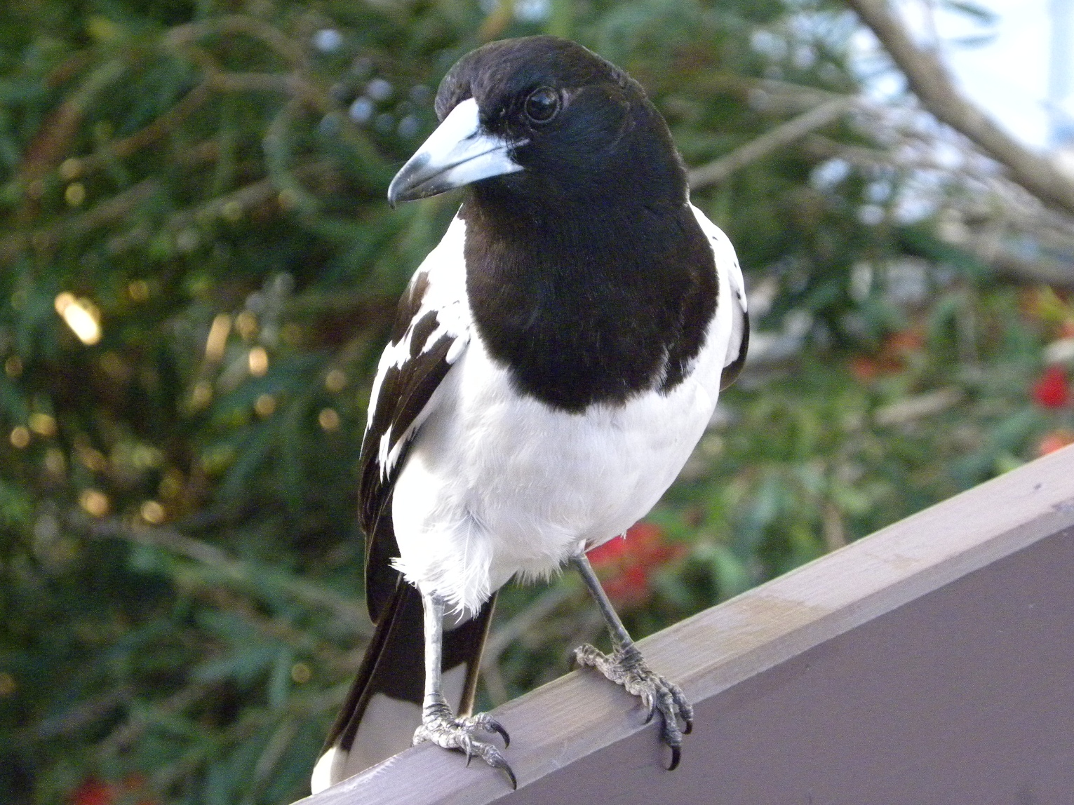 Pied Butcherbird - Male (Cracticus nigrogularis) photographed in Gladstone, Central Queensland, Australia